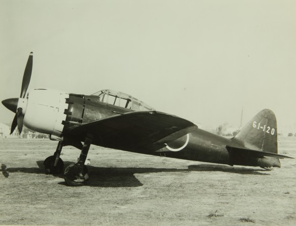 PictionID:6499088 - Catalog:01_00085687 - Title:Mitsubishi, A6M, Zero - Filename:01_00085687.TIF - Image from the Charles Daniels Photo Collection album "Seversky, Republic and P-47"----PLEASE TAG this image with any information you know about it, so that we can permanently store this data with the original image file in our Digital Asset Management System.----SOURCE INSTITUTION: San Diego Air and Space Museum Archive